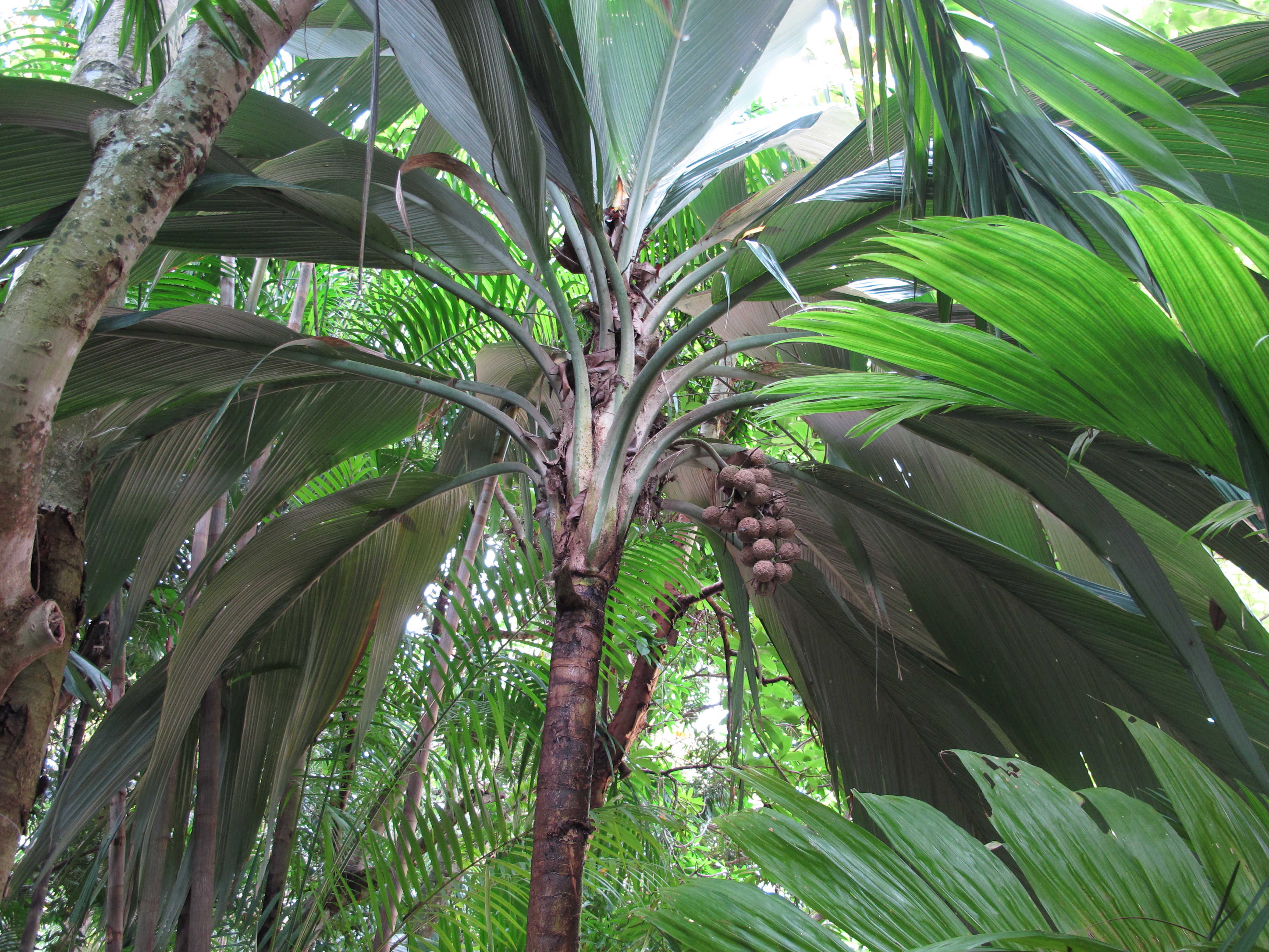 Nong Nooch Tropical Garden, Pattaya, Thailand.